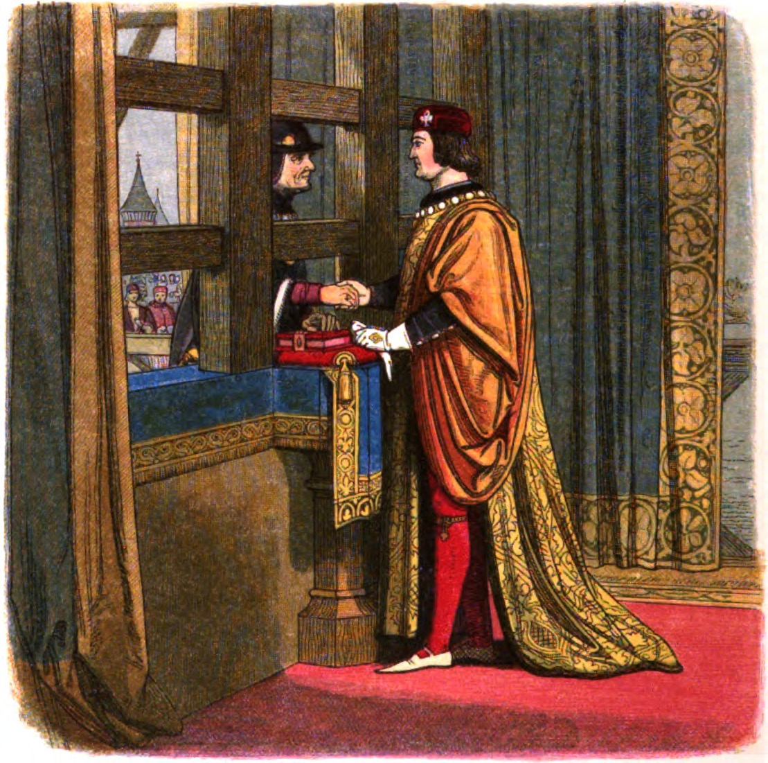 Edward IV of England meets with Louis XI of France at Picquigny to affirm the Treaty of Picquigny.